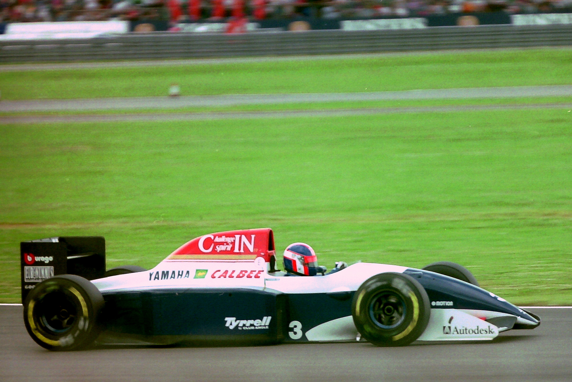 Ukyo Katayama - Tyrrell 020C during practice for the 1993 British Grand Prix